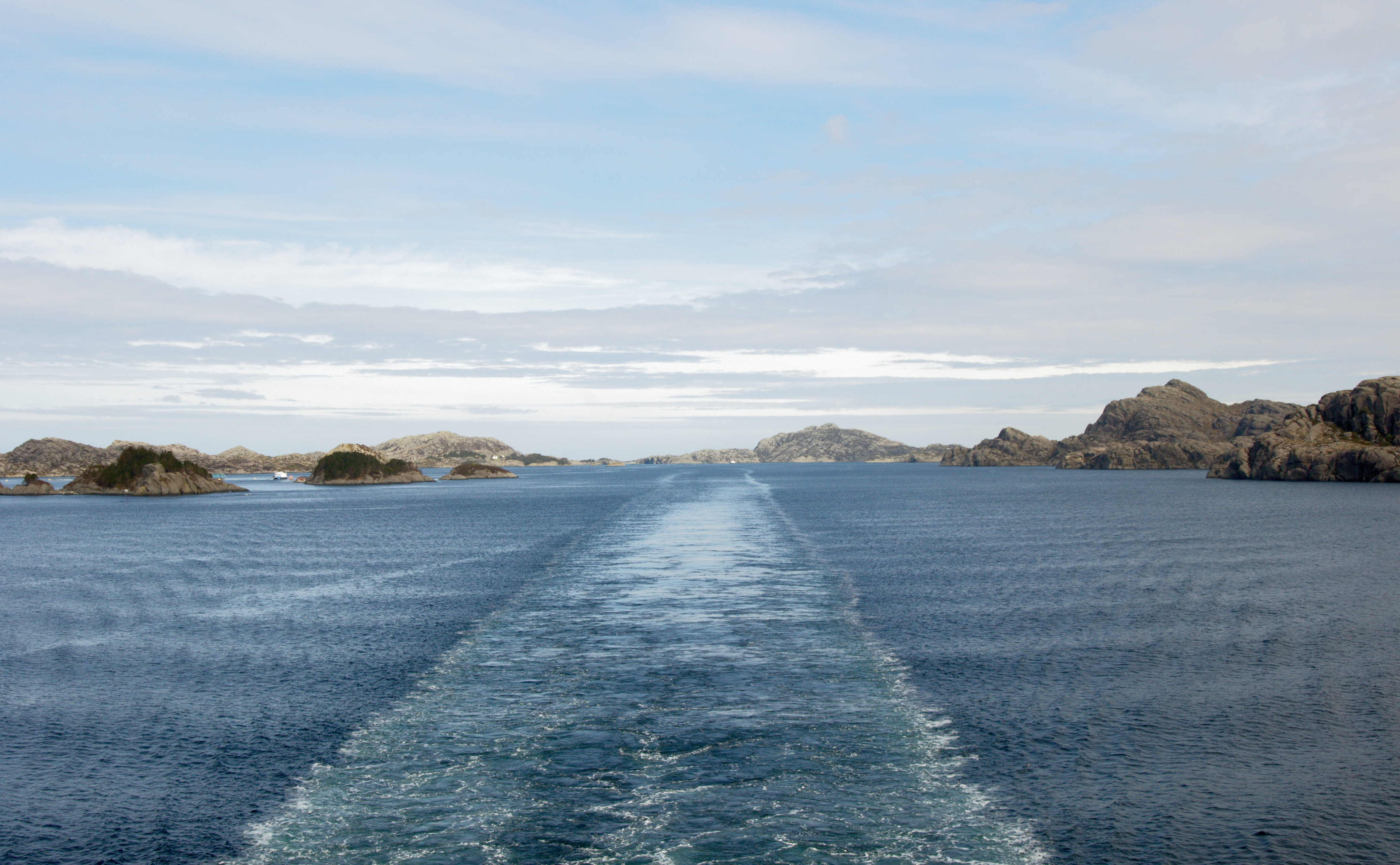 The Steinsund between Steinsundøy and Rånøy, seen from board of MS Nordlys